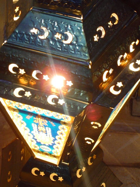 Lantern, or Fanoos in Arabic is one of the major Ramadan Celebration Decorations / Icons